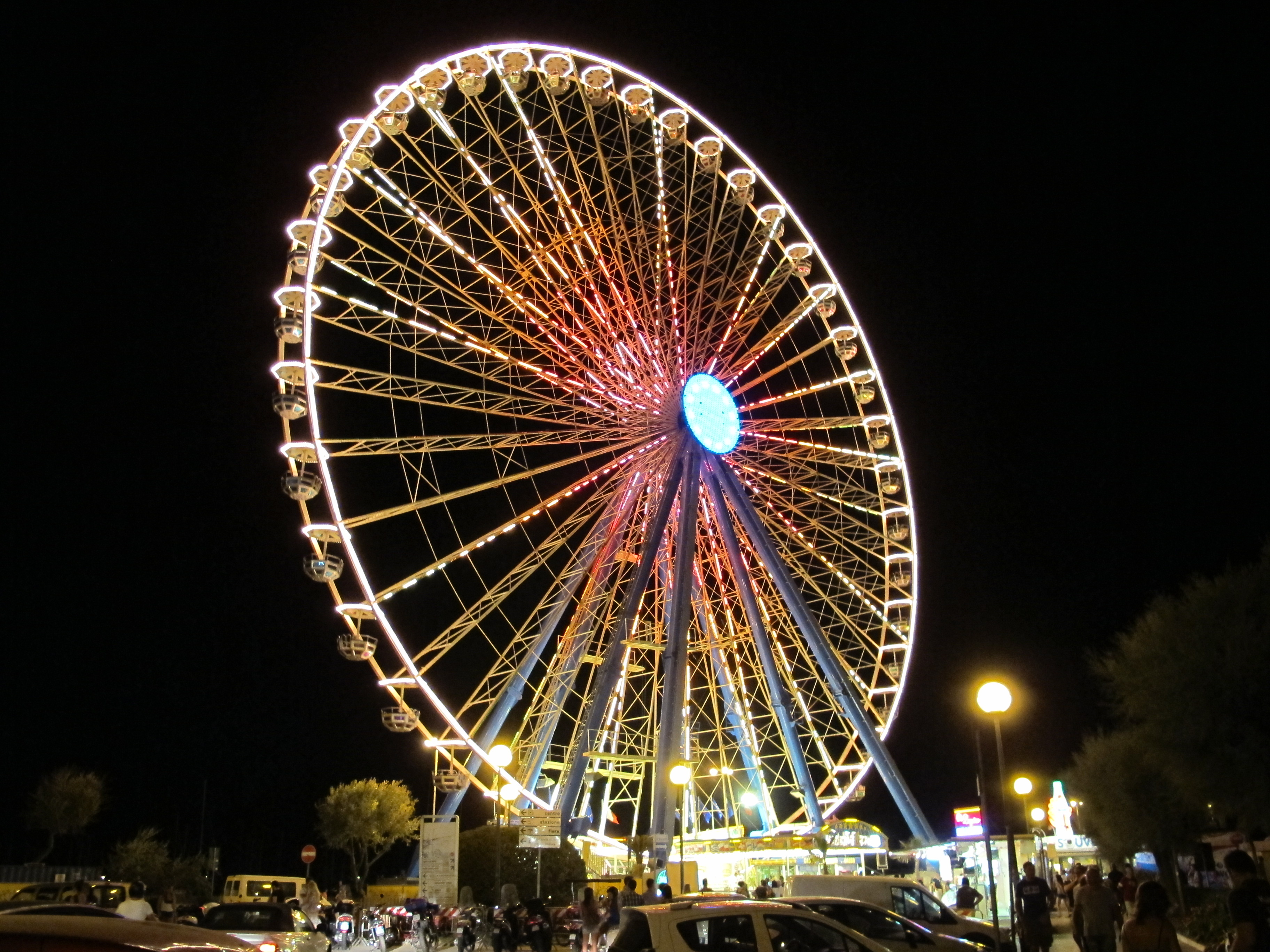 Ferris wheel in Rimini, Italy